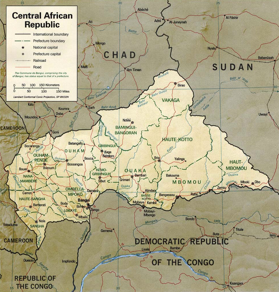 Shaded relief map of the Central African Republic. Cropped caption: Base 802739 (B01340) 2-01